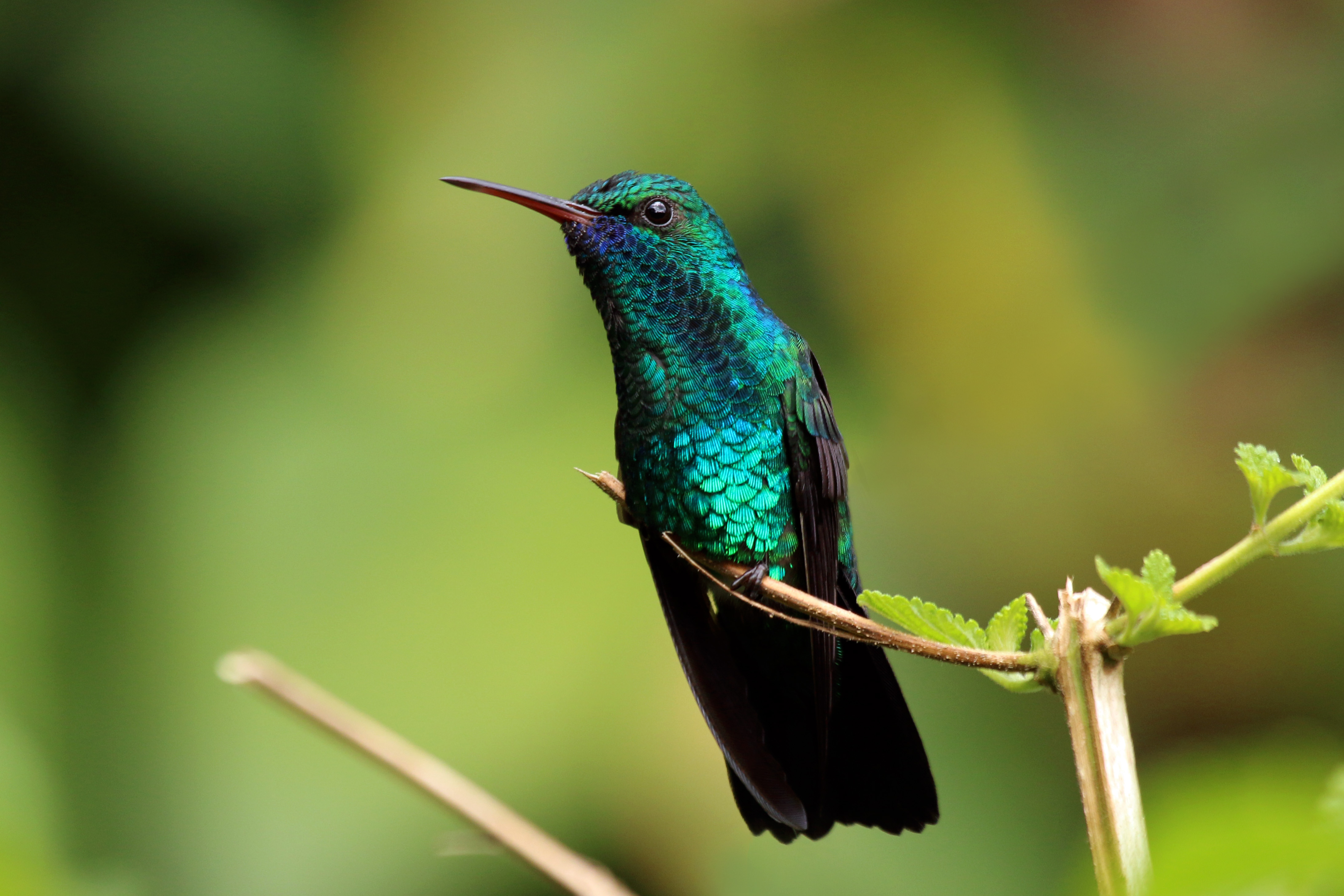 Blue-chinned sapphire (Chlorestes notata notata) male, Trinidad